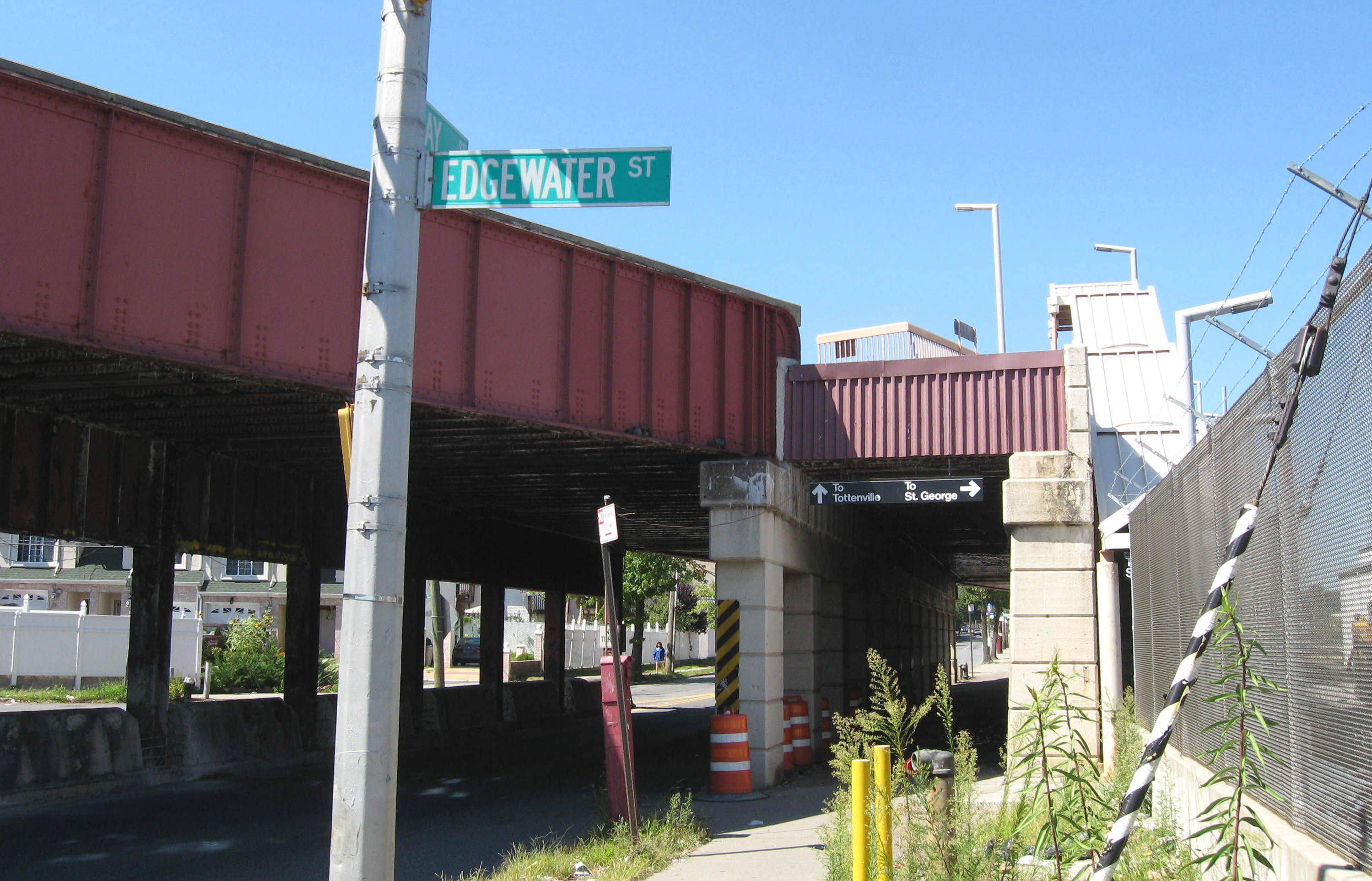 Looking north at Clifton (Staten Island Railway station) northbound entrance on a sunny midday